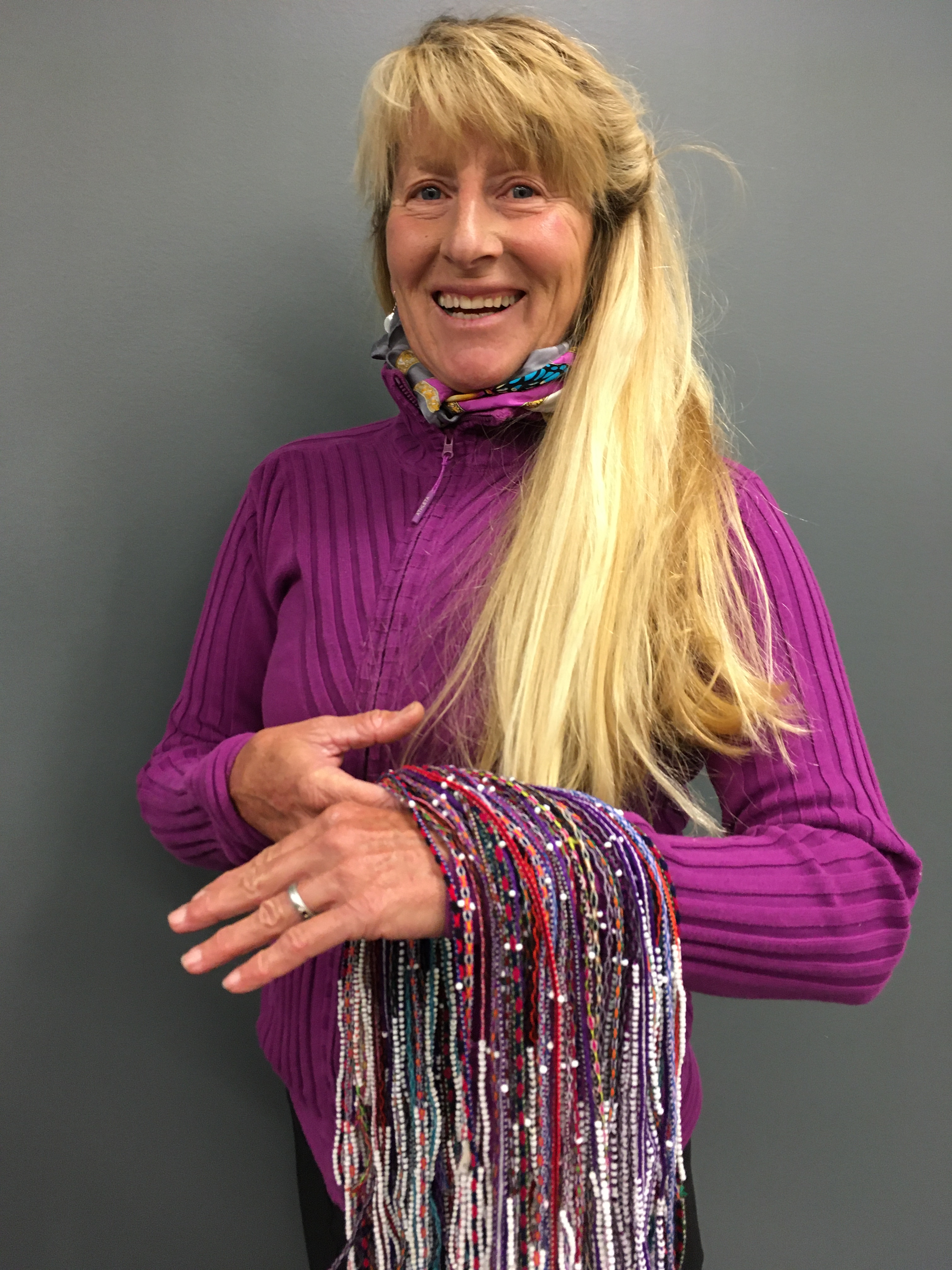 Photograph of Colleen Cannon (11/13/19)